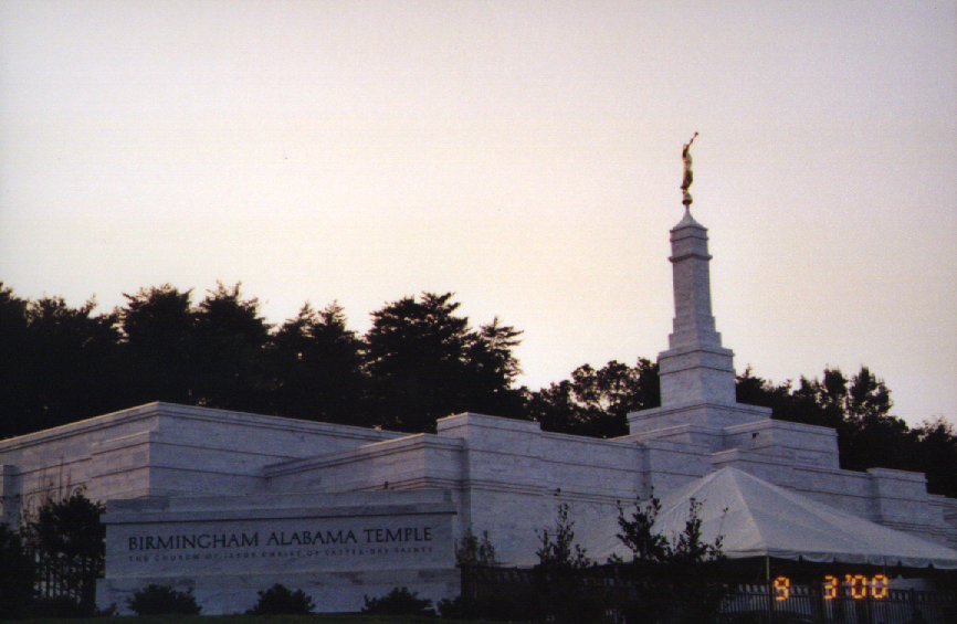 The Birmingham Alabama Temple of The Church of Jesus Christ of Latter-day Saints. It's actually in Gardendale, about 10 miles North of Birmingham. Negative to print to scan to JPEG to Internet hasn't done justice to the color of the sky.